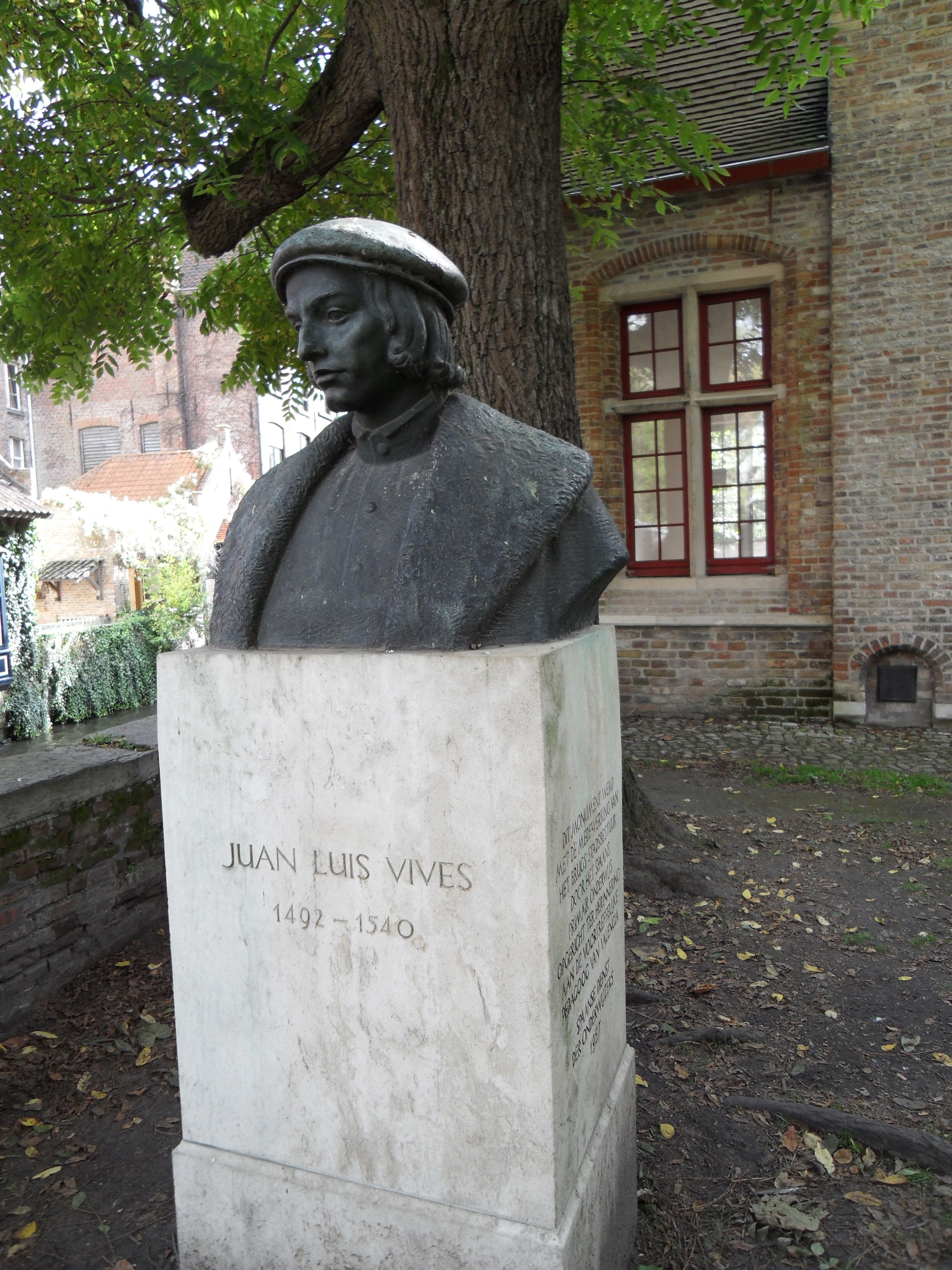 Vivès in Bruges